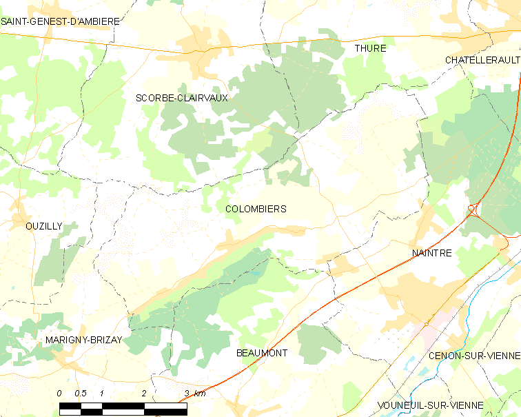 Map of French municipality Colombiers